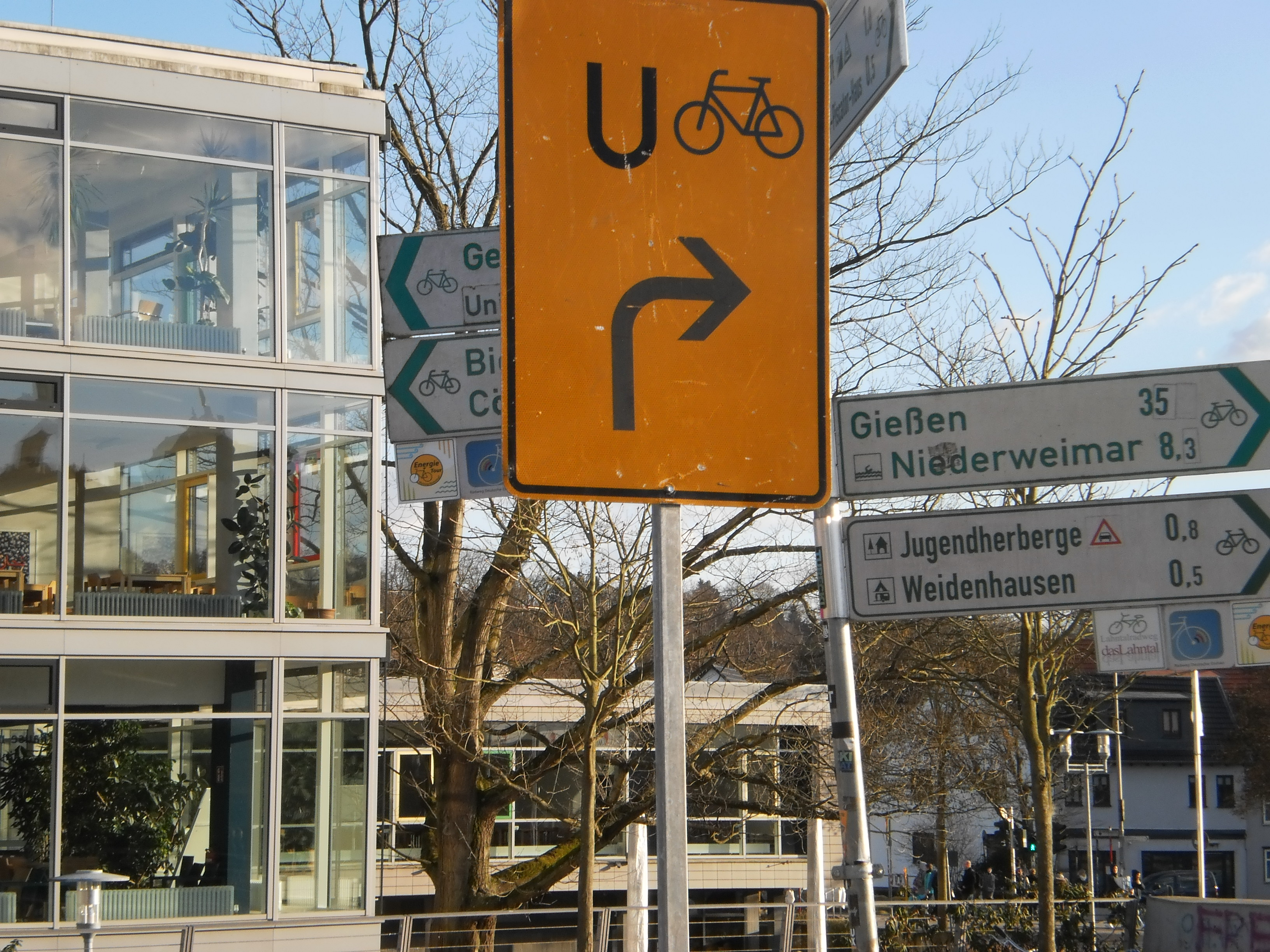 Cycling route signs in Hesse, cycling track from Marburg (University) to the next big city in the South Gießen, photo taken in March 2018, begin of spring with sun. Photo one year ago: File:Cycling route signs for trail Lahntalradweg from bridge 'Abendroth-Brücke' in Marburg to Giessen (Germany) on East bank, ice in January on frozen river Lahn and old town, 2017-01-24.jpg.